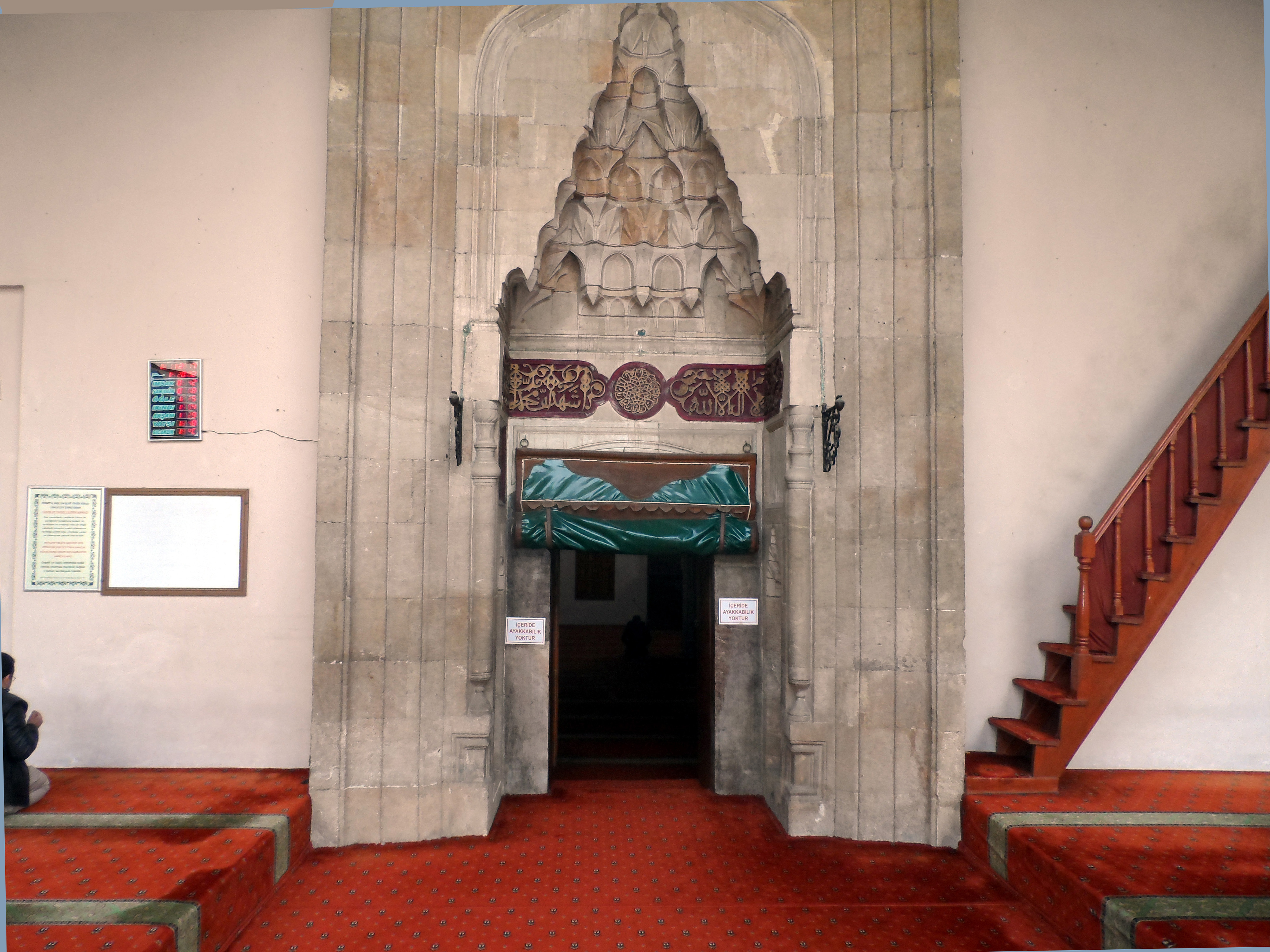 Kahramanmaraş Grand Mosque portal, Turkey